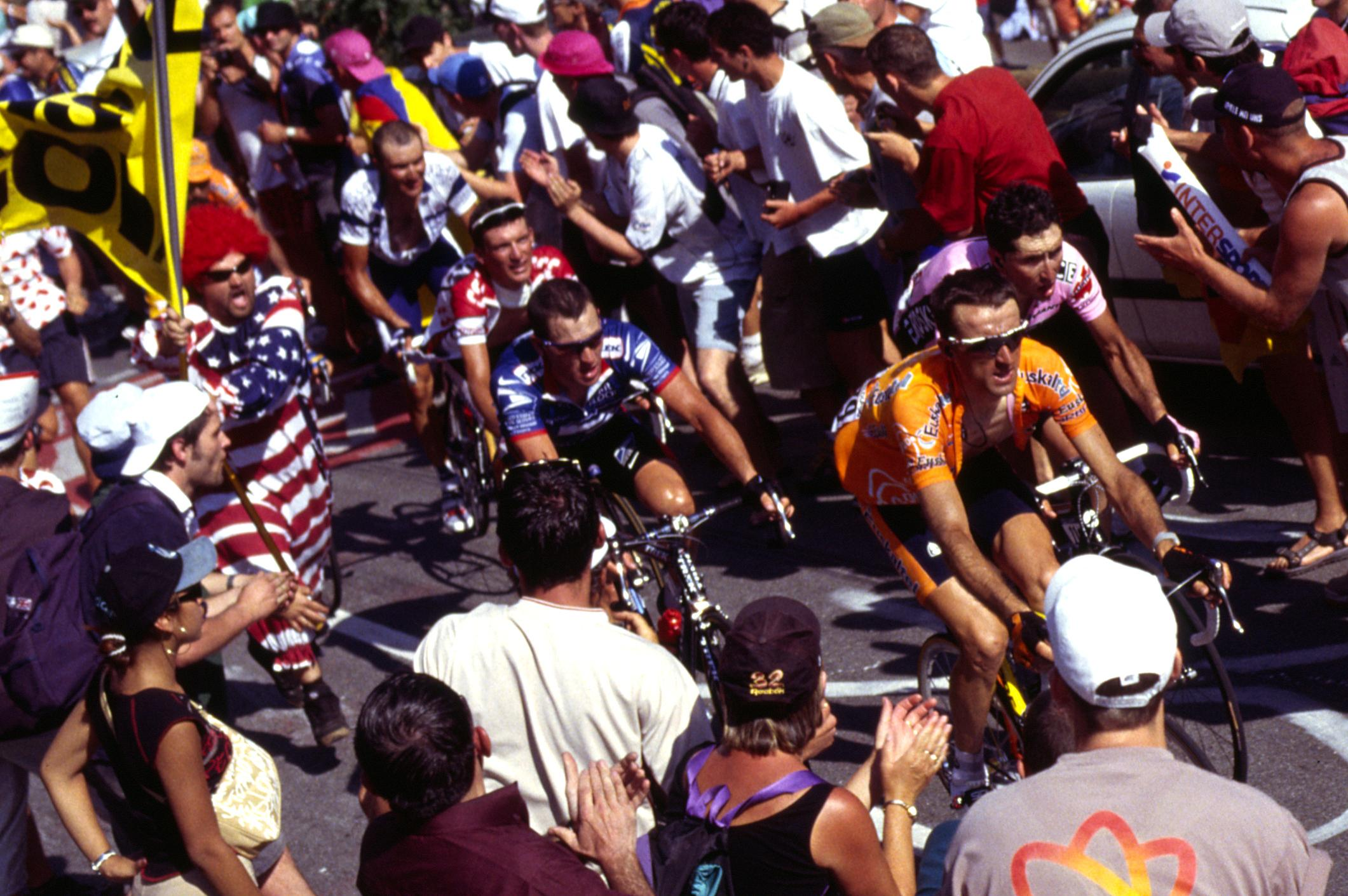 The 2003 Tour de France on Alpe d'Huez, with Lance Armstrong, Tyler Hamilton, Ivan Basso, Haimar Zubeldia, Roberto Laiseka and Joseba Beloki.